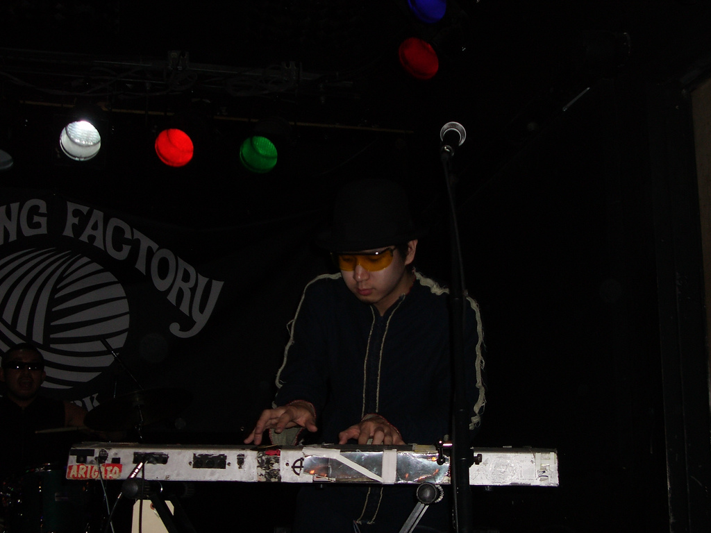 PE'Z Live in 2006